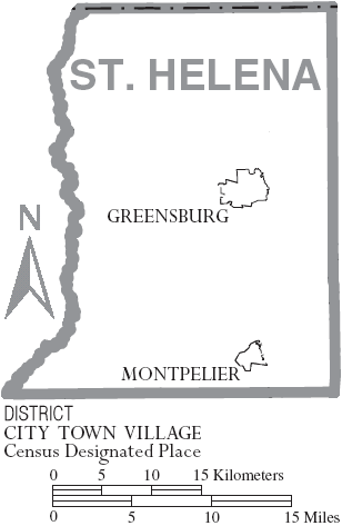 Map of St. Helena Parish, Louisiana, United States with municipal boundaries